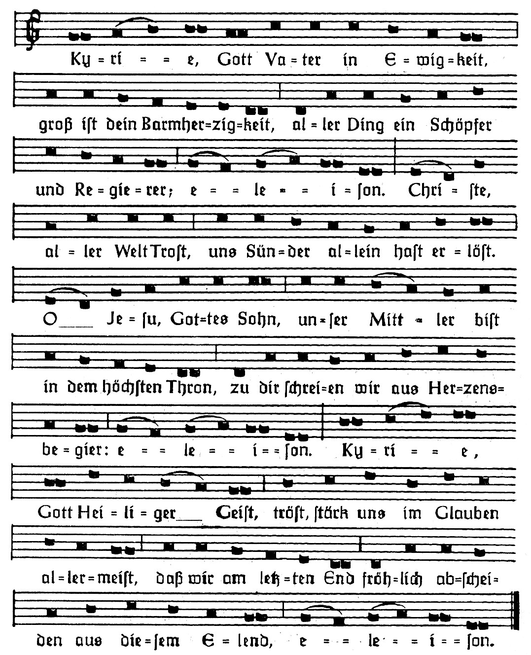 The Lutheran hymn Kyrie Gott, Vater in Ewigkeit adapted from the Kyrie fons bonitatis